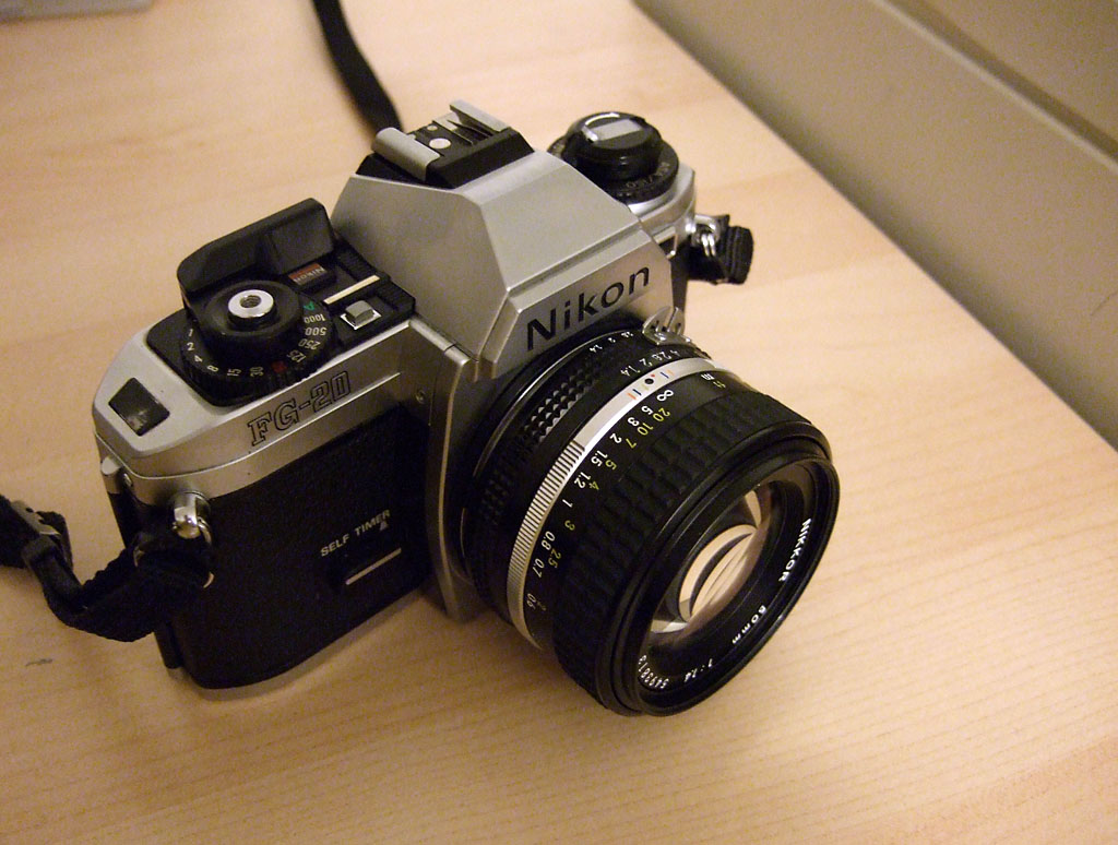 Nikon FG-20 SLR camera with Nikkor 50 mm f/1.4 lens